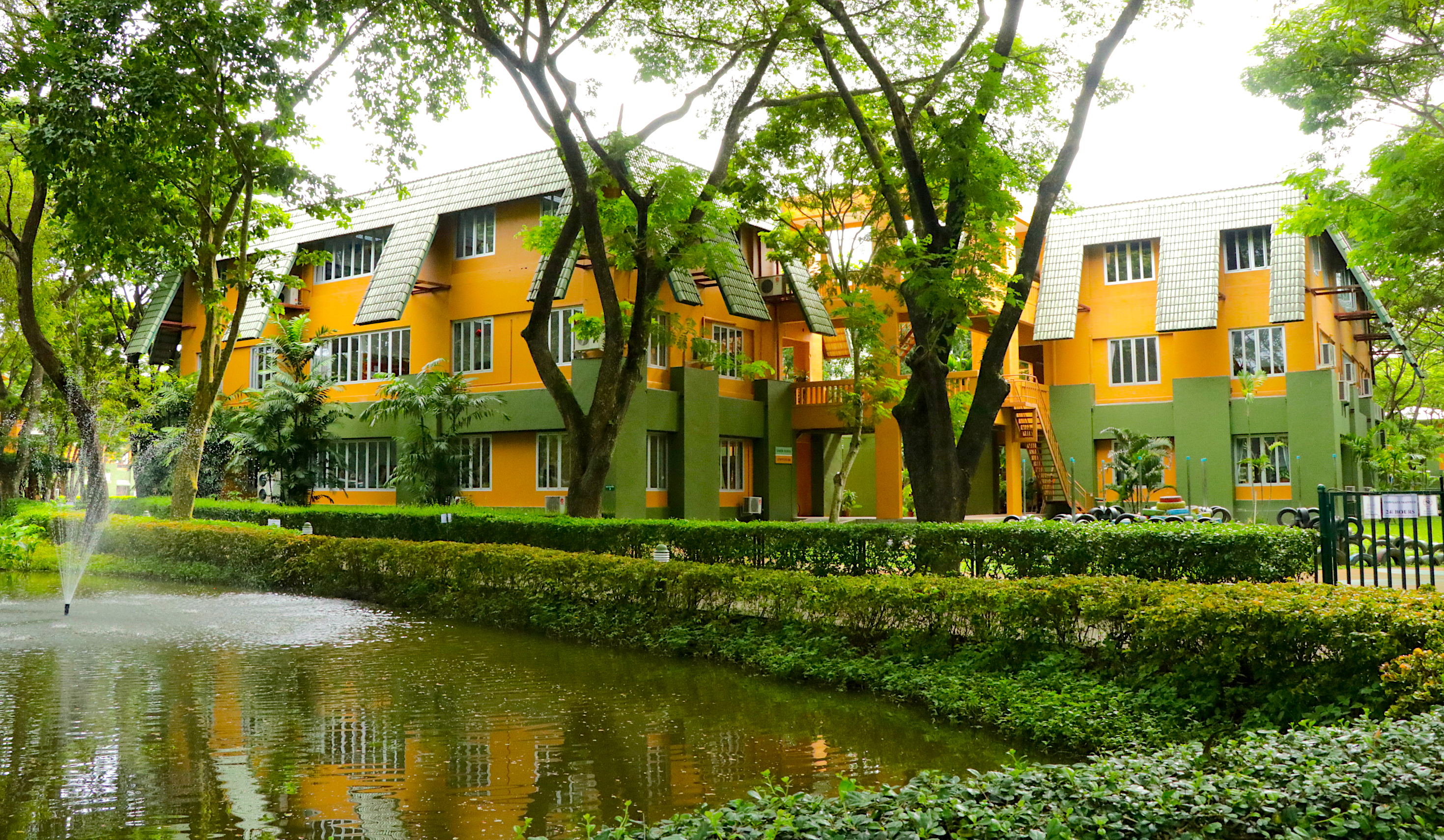 Prem Tinsulanonda International School Classroom Buildings